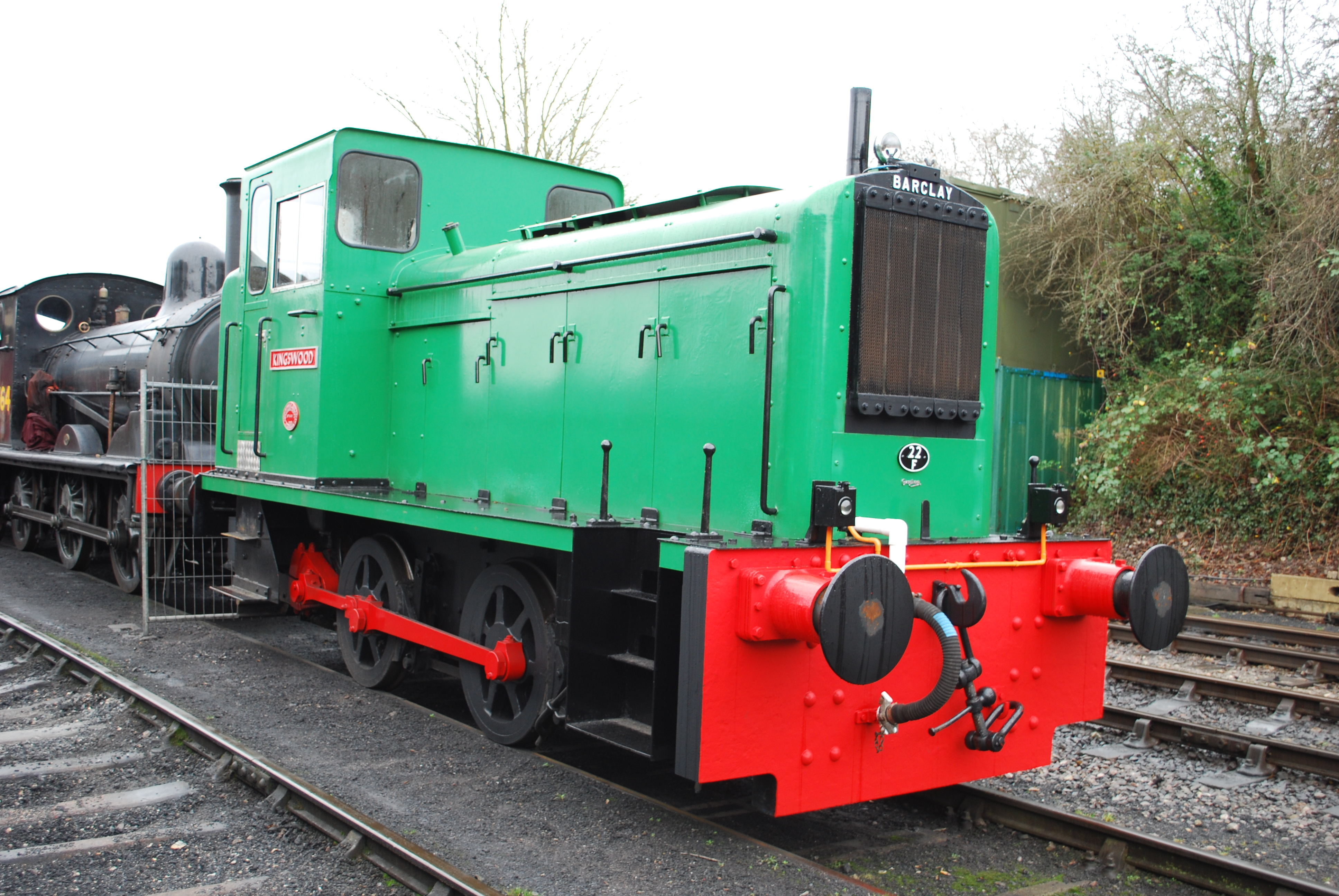 Barclay 0-4-0 diesel mechanical shunter No.446 of 1959 "Kingswood" with a 150hp Gardner 6L3 6-cyl engine at Bitton, Avon Valley Railway, 12/12.